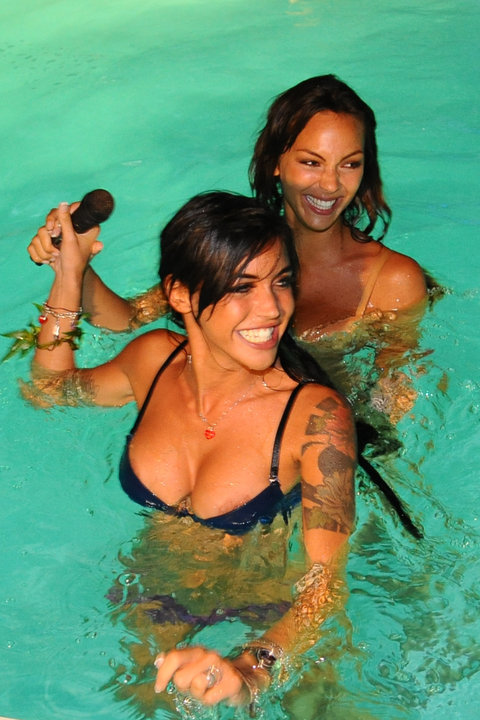 Veronica Ciardi (at left) and Sarah Nile (at right) in the swimming pool at "Festa del Sogno" (29 July 2010, Salerno)